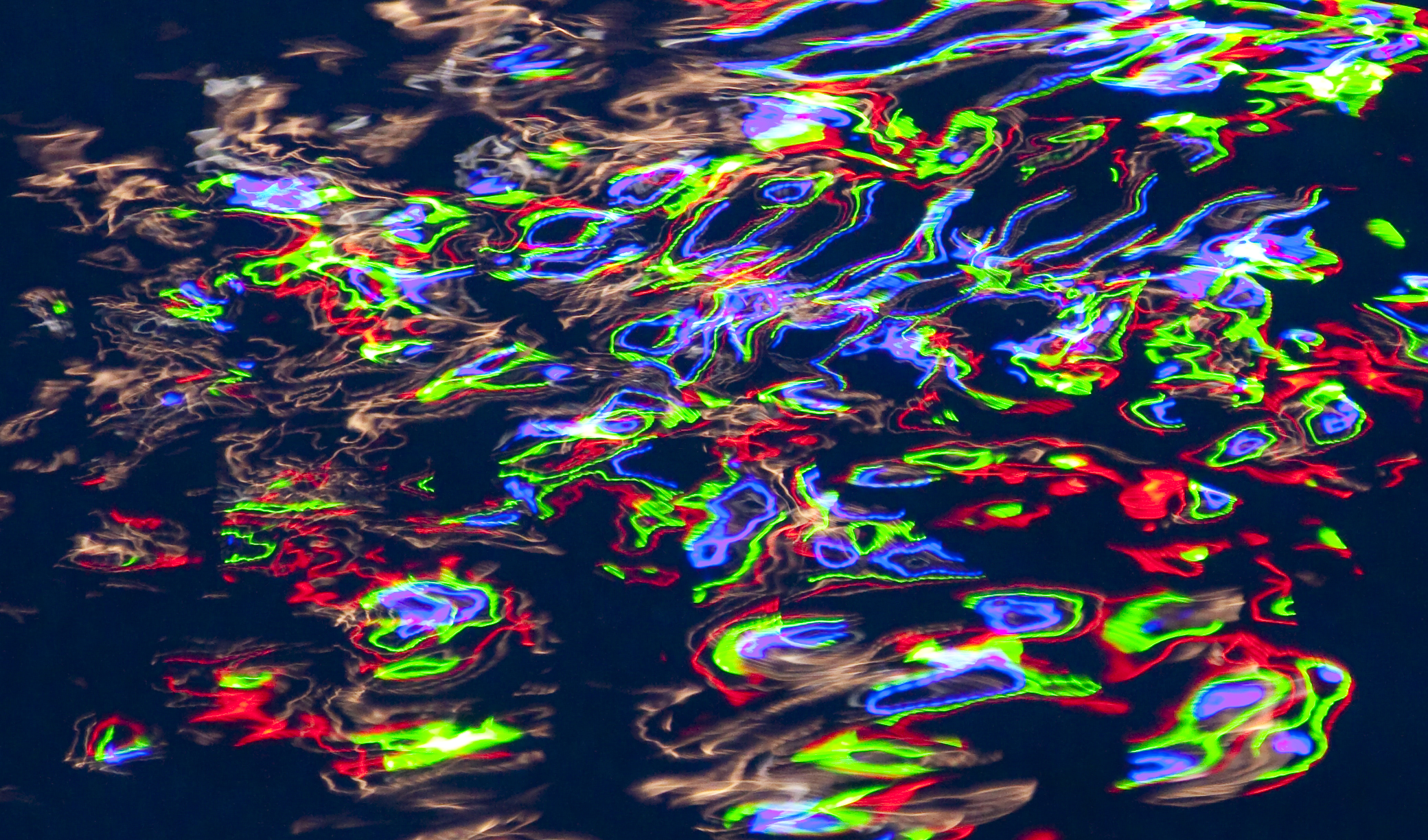 Reflections of the coloured lights shining on the Water Mirror in Bordeaux. There is no additional processing in this shot, this is just like it looked in real life. I really liked to whole idea of the water mirror and it was certainly a hit with all ages.